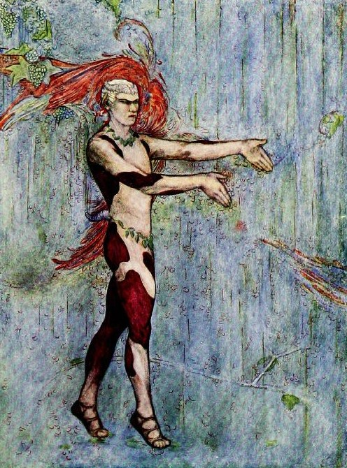 Image from scanned copy of "The Art of Nijinsky" by Geoffrey Arundel Whitworth, published in 1913 and in the Public Domain. Image has been cropped slightly.